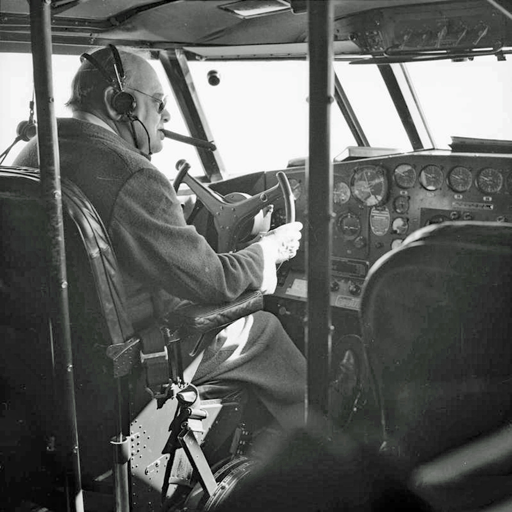 Winston Churchill in the captain's seat aboard BOAC Boeing 314 flying-boat "Berwick" (civil registry G-AGCA), enroute from Virginia to Bermuda. January 16th, 1942.